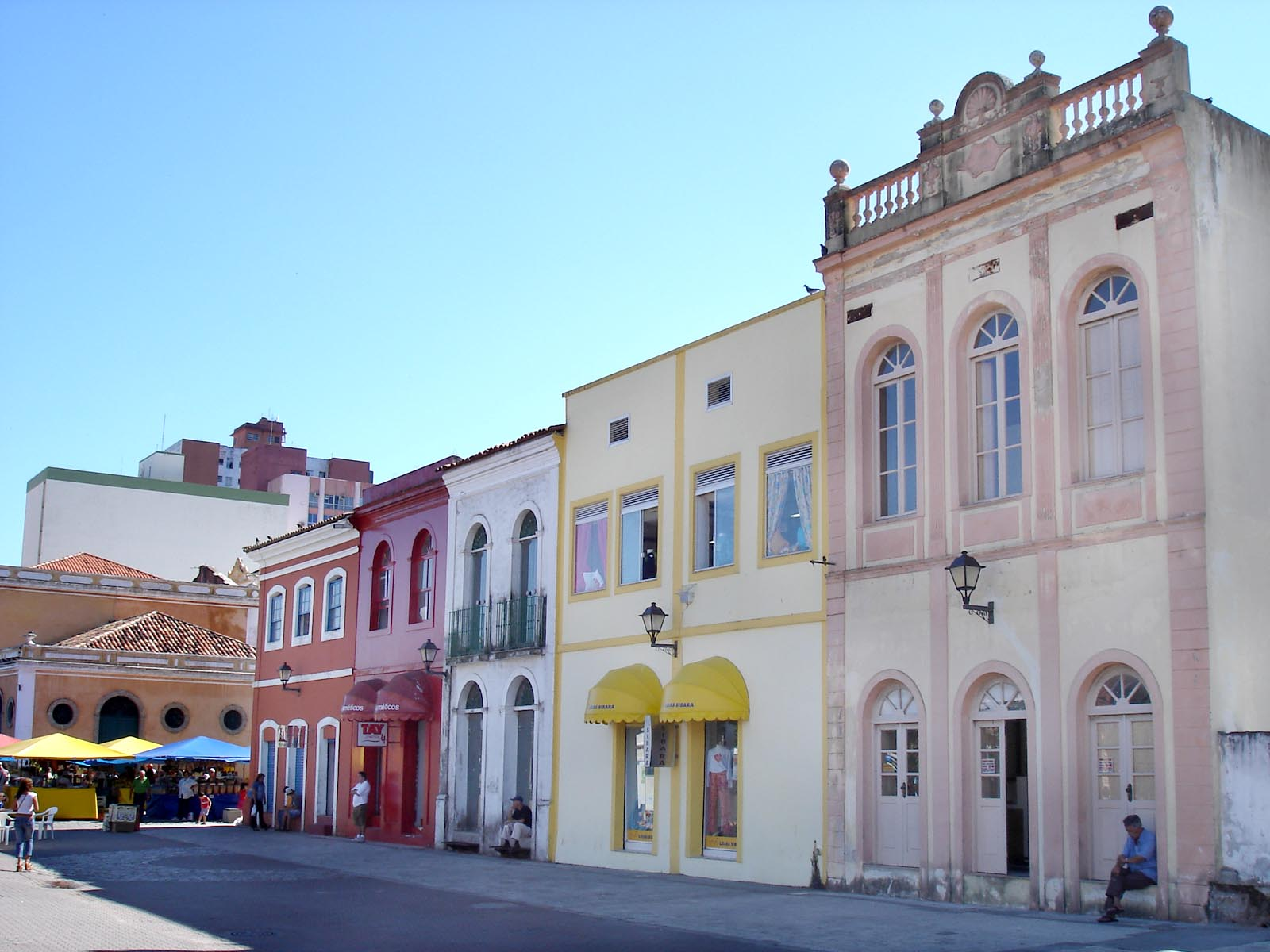 Historic center of Florianópolis, Brazil.